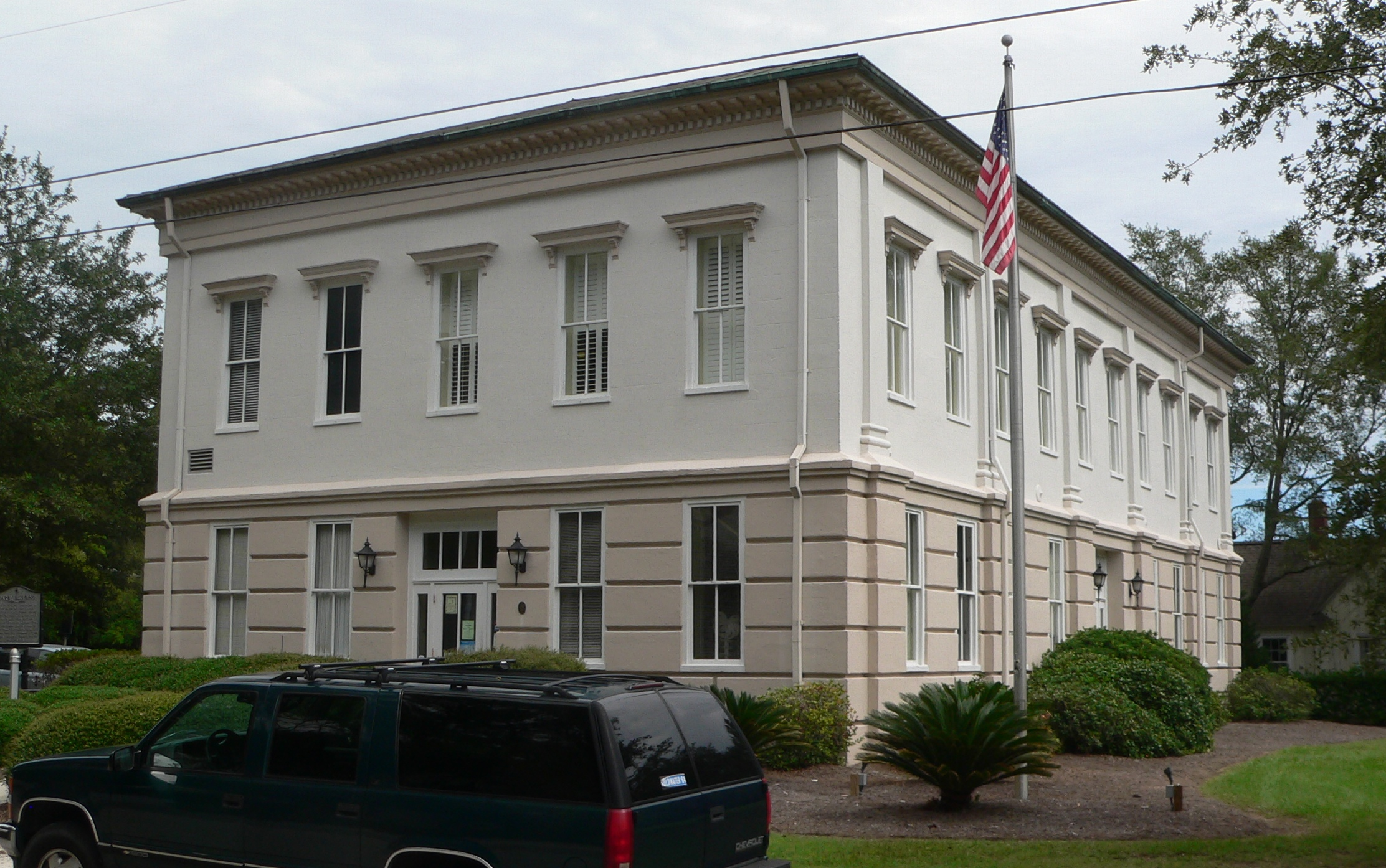 G. Mcgrath Darby Building, located on King Street between Pitt and Carr Streets in Mount Pleasant, South Carolina. The camera is located on King, looking generally eastward. (The building's long axis is oriented northwest-southeast.) The building was formerly the Berkeley County, South Carolina courthouse. It is listed in the National Register of Historic Places.